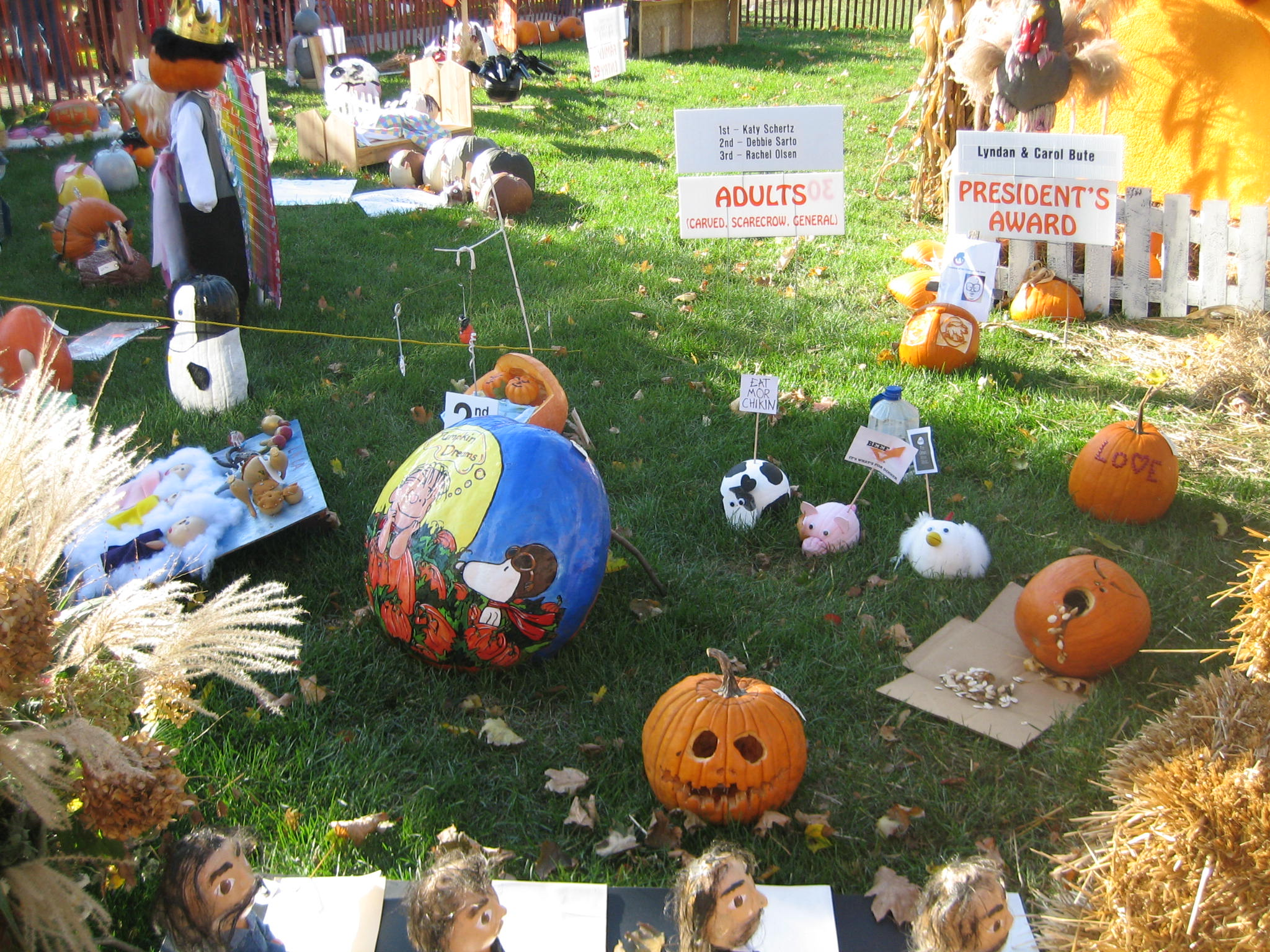 Pumpkin Display on DeKalb County Courthouse lawn in Sycamore, Illinois, USA during the Sycamore Pumpkin Festival, 2007